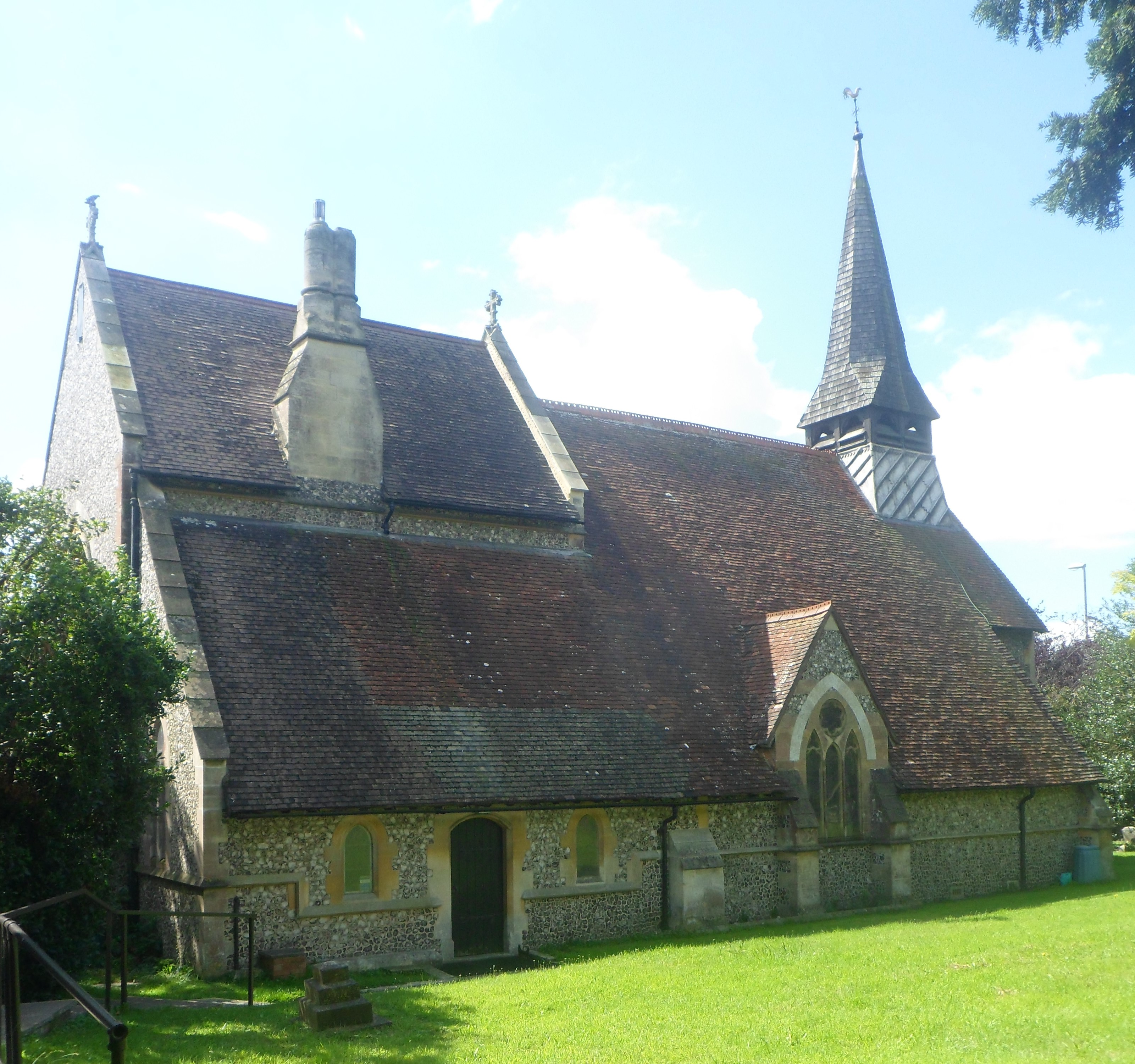 St Andrew's Church, Havant Road, Farlington, City of Portsmouth, England. This small medieval church was rebuilt between 1872 and 1875 by locally prolific architect G.E. Smith.